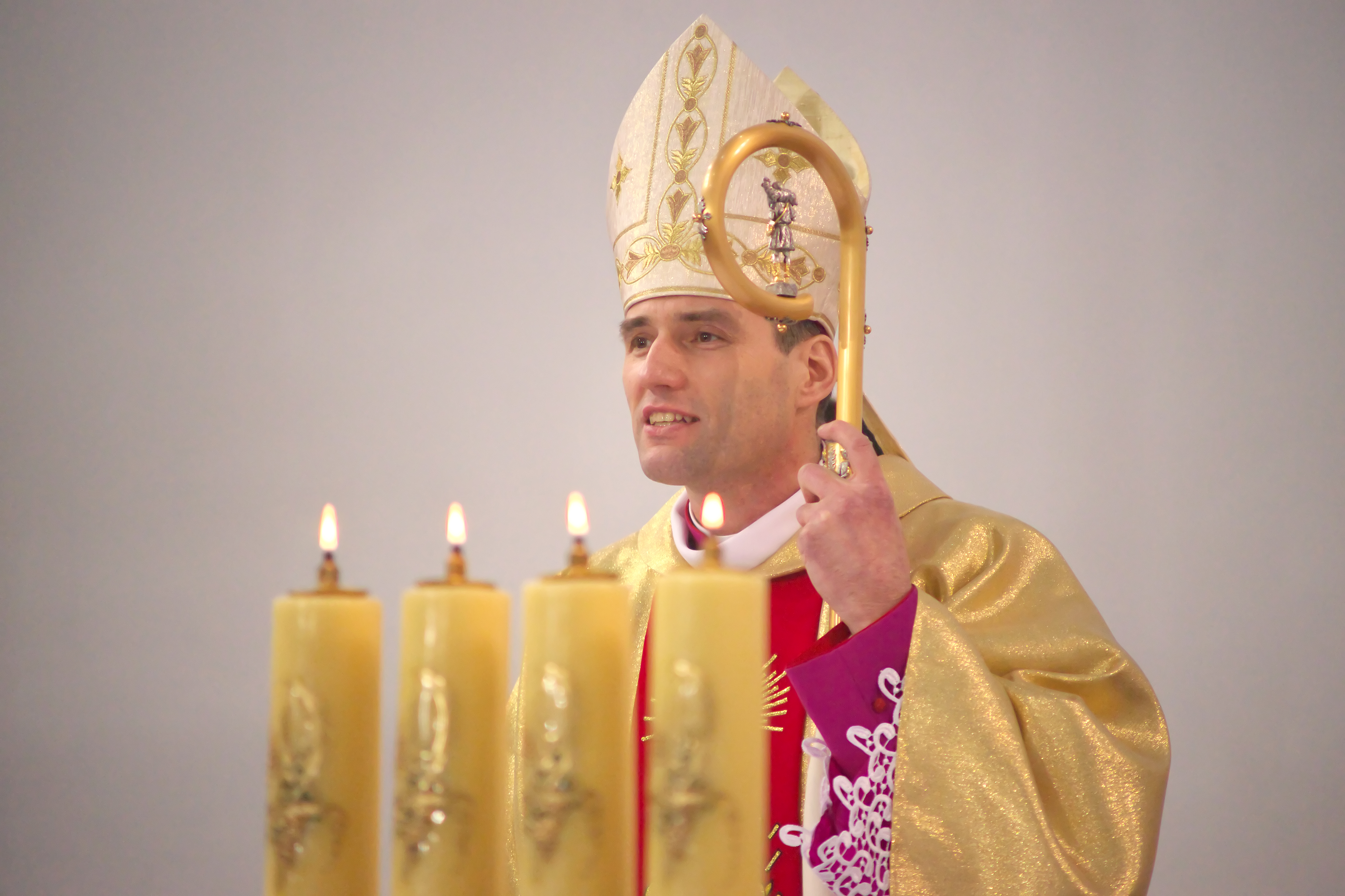 Aleh Butkevich, Bishop of Vitebsk